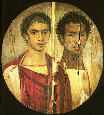 Distemper painting on wooden panel of Two brothers, from the Fayum, Egypt. 2nd c. A.D. (Cairo: Egyptian Museum). Portrait painting arises from the mummy portrait tradition in Egypt, but removed from context because of an association with the Roman portrait busts. While most examples are from the Fayum in Egypt, we assume that this is perhaps typical of portrait painting elsewhere and still Graeco-Roman in its aesthetic. The technique of distemper on wood used pigments mixed with a casein (milk protein) binder, and the effect was a flat thin color more associated with frescos than the expressive potentials of encaustic painting.